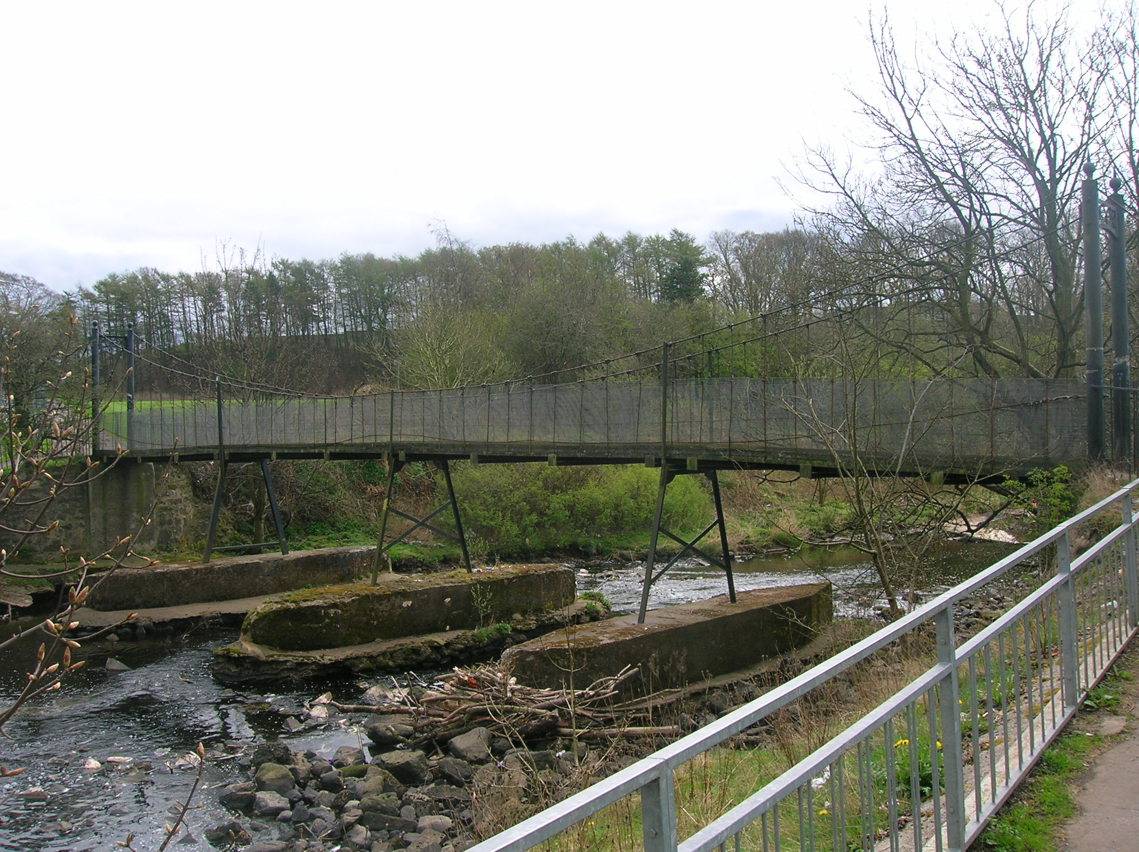 The partial suspension bridge over the Kilmarnock Water at Dean Ford in Kilmarnock, East Ayrshire, Scotland. 2007. Originally from Haugh, near Mauchline.